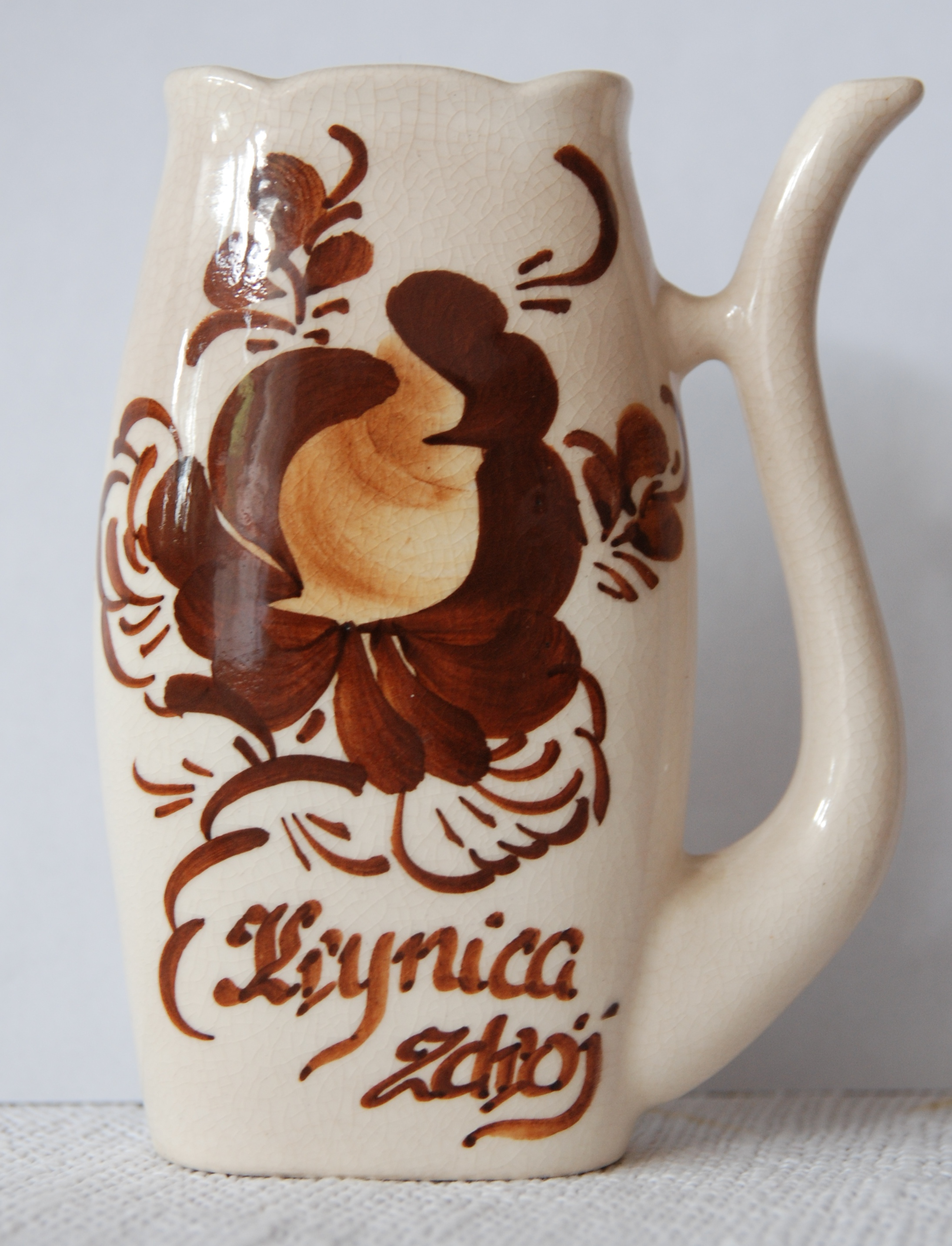 Special mug from Krynica Zdrój